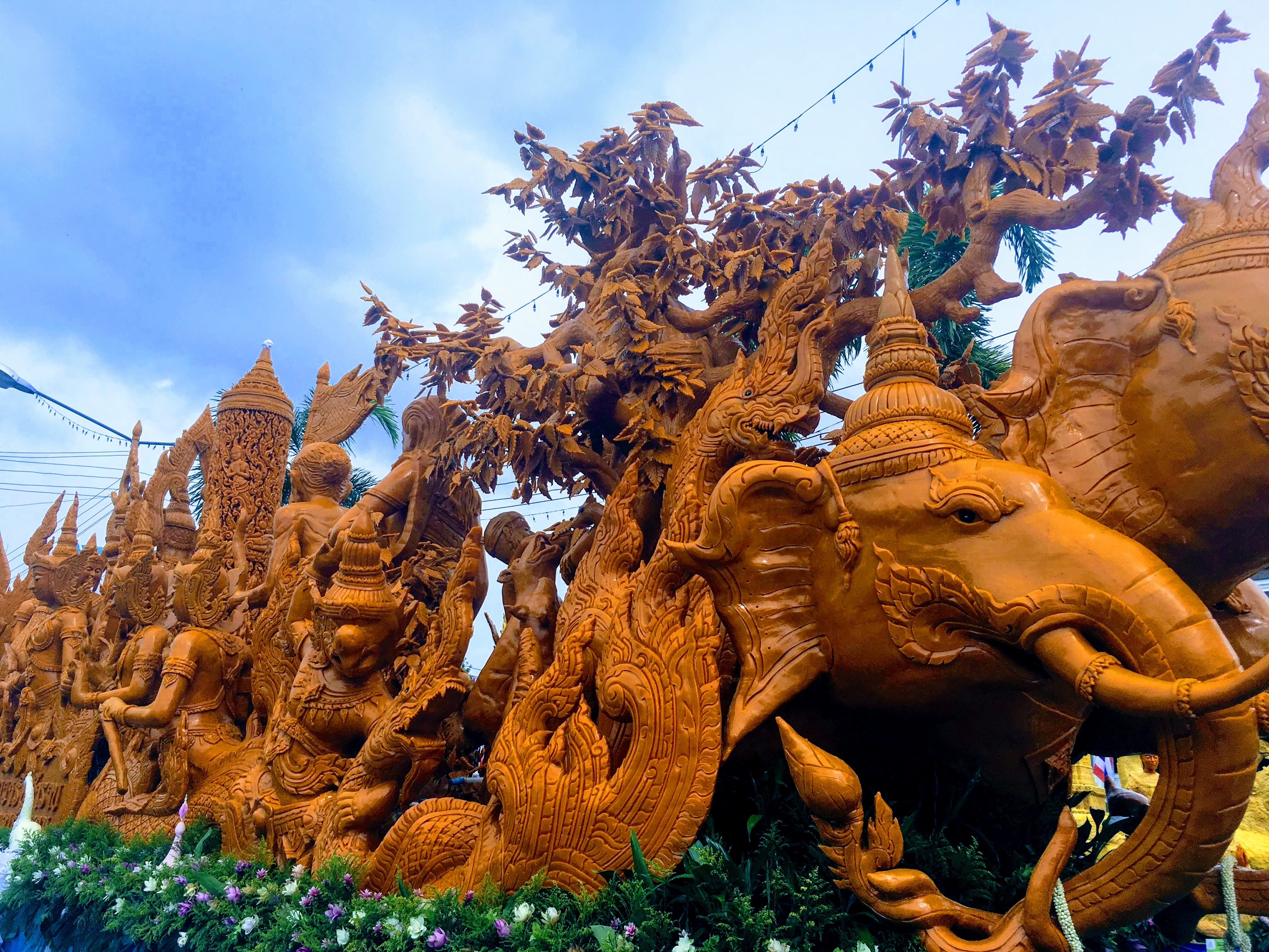 Carving Candle